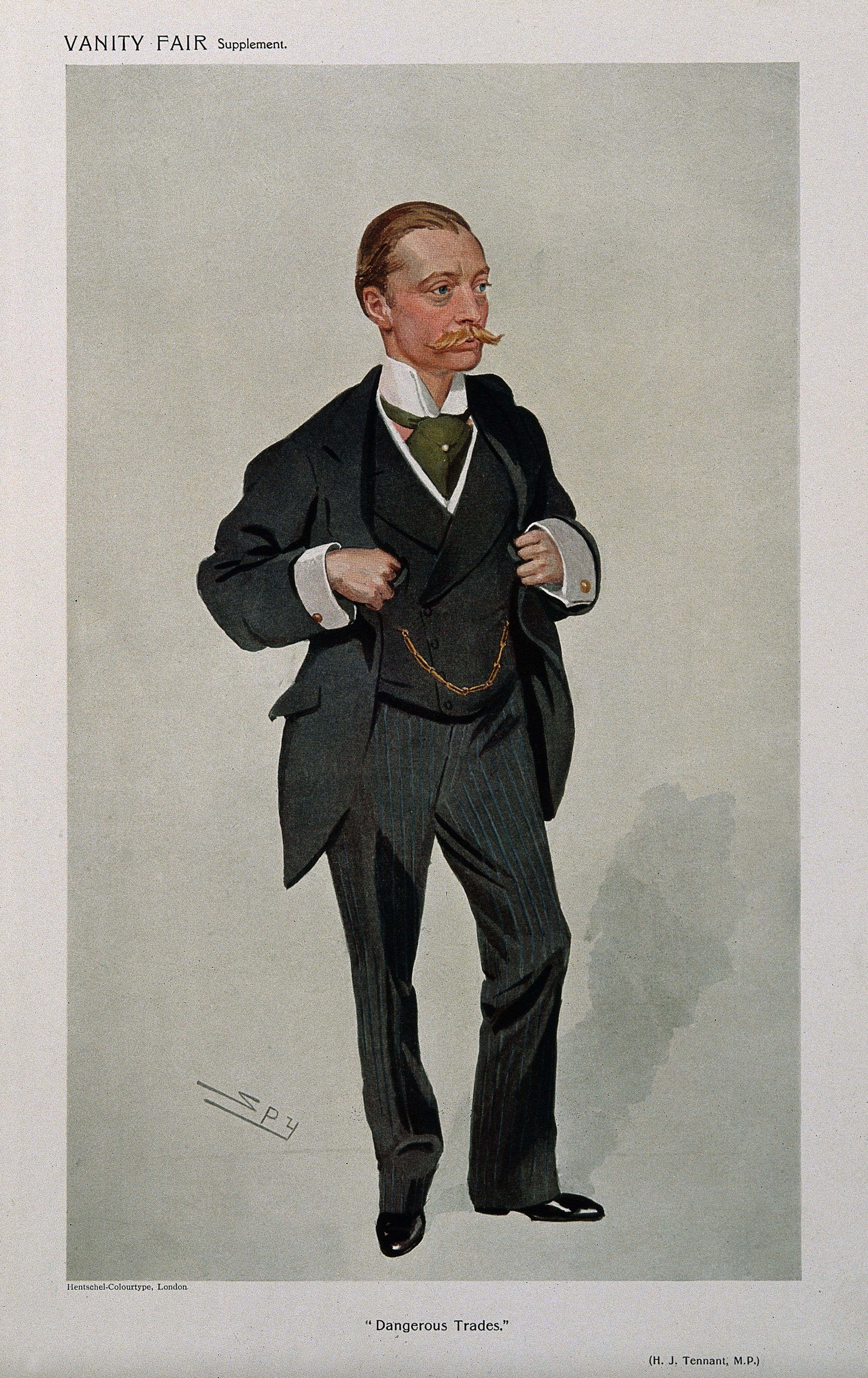 Genre/Technique: Portrait prints. Lithographs. Subject name: Tennant, Harold John, Sir, b. 1865.